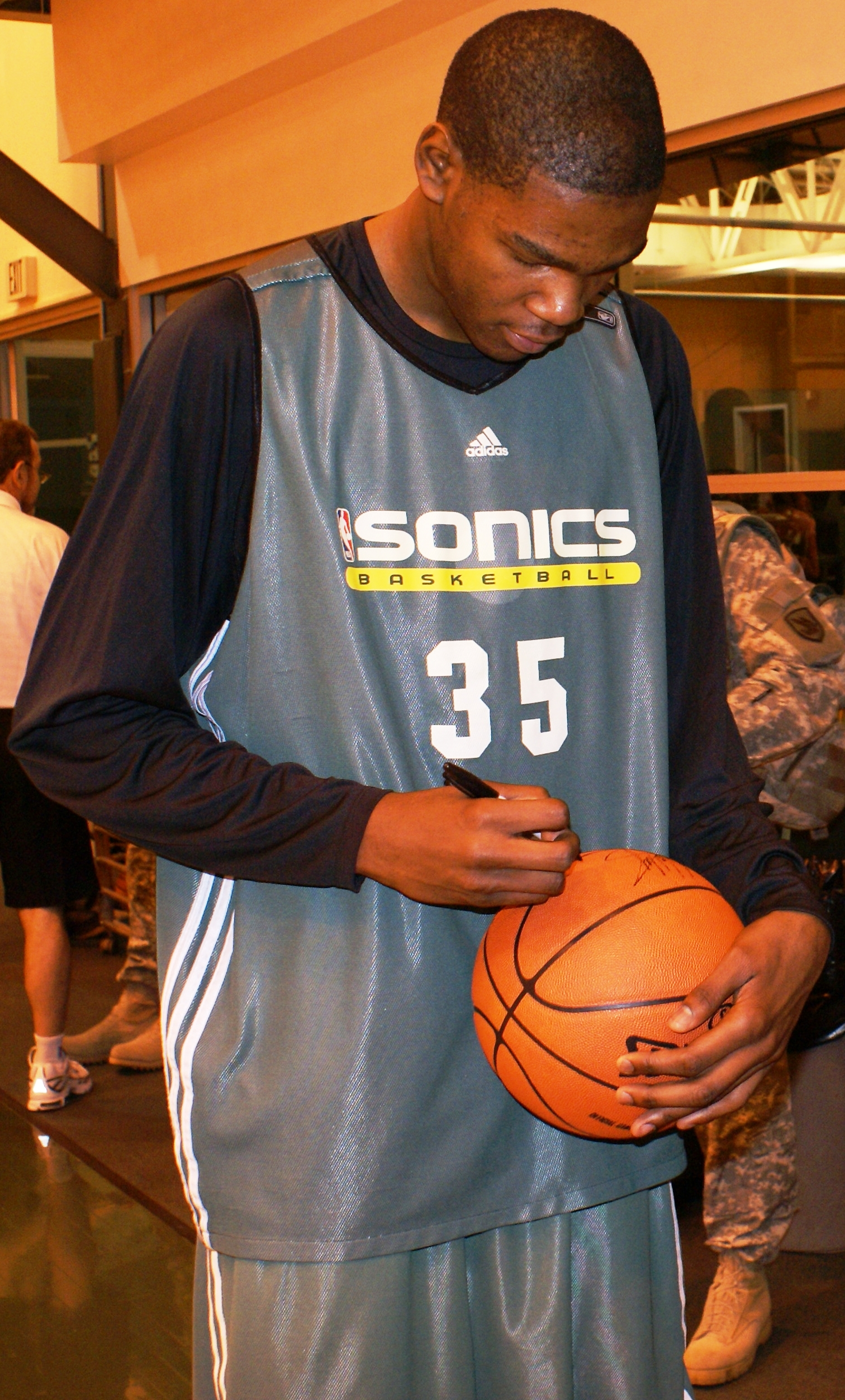 Seattle SuperSonics rookie Kevin Durant signs a basketball for Senior Airman Troy Bame, 62nd Operations Support Squadron,Wednesday at the Sonics practice facility in Seattle. Four McChord Airmen and servicemembers from other branches of the militarywere invited to the facility to watch a practice, meet and eat lunch with the players, and attend Wednesday night’s gameagainst the New Orleans Hornets.